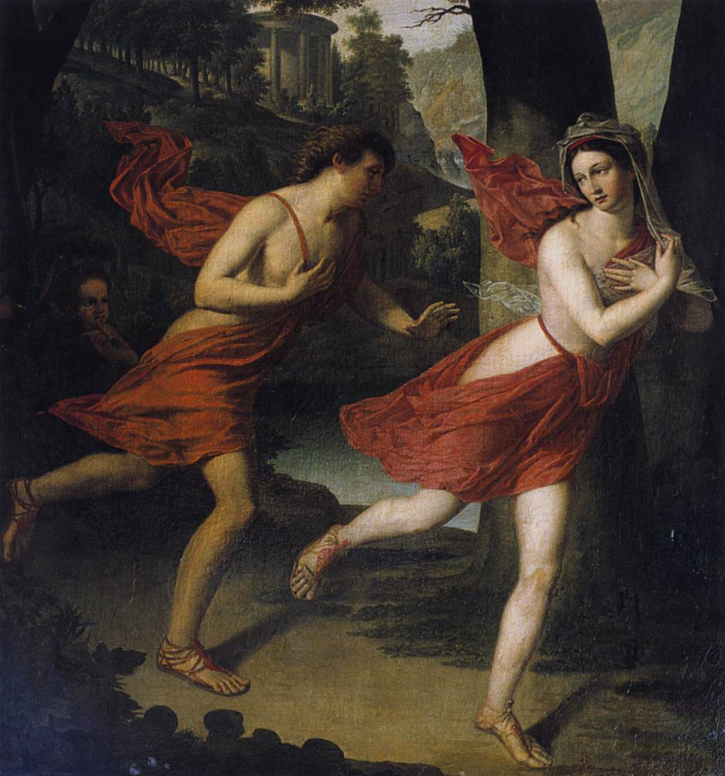 Pauline as Daphne Fleeing from Apollo